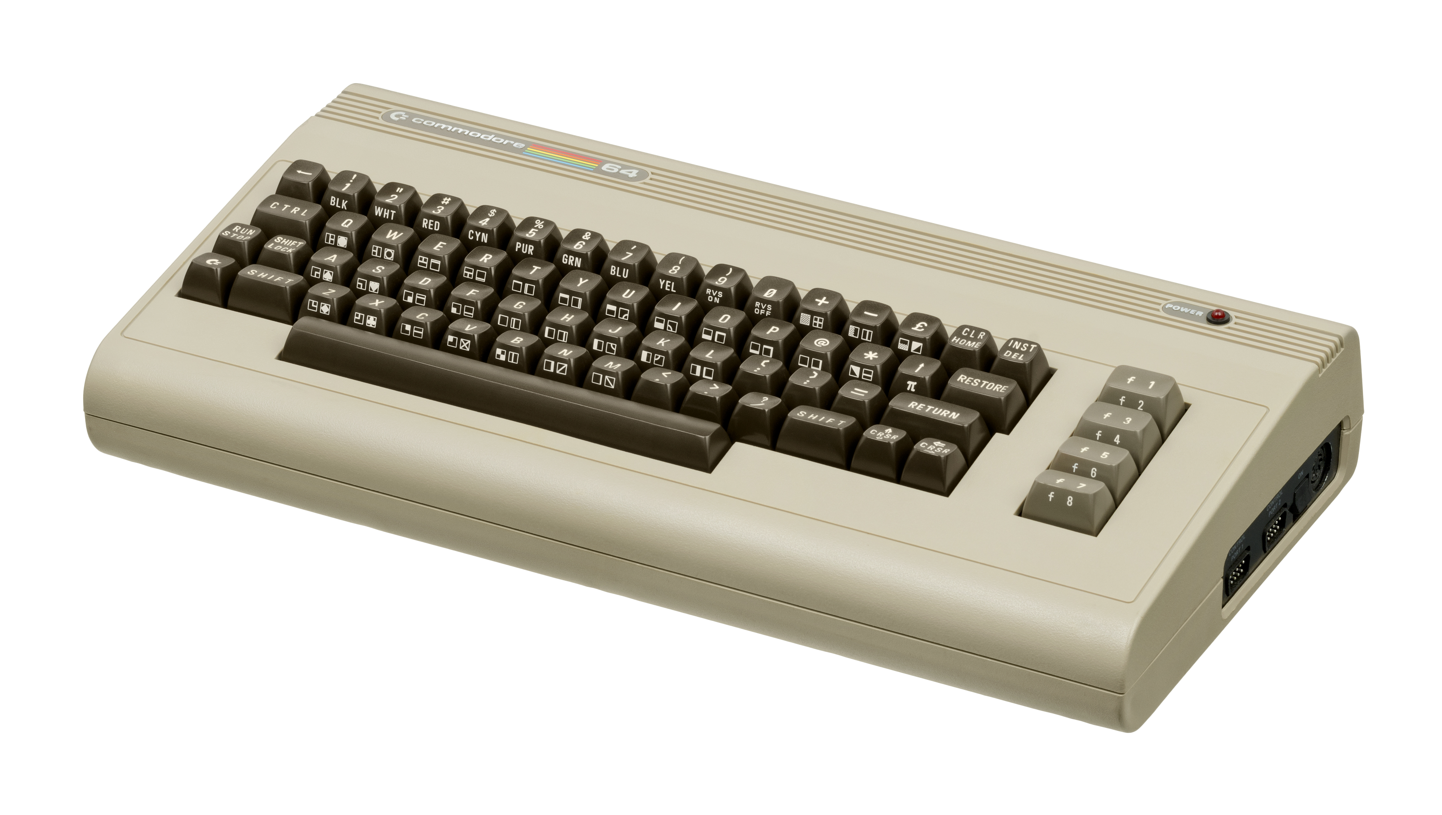 A Commodore 64, an 8-bit home computer introduced in 1982 by Commodore International. Its low retail price and easy availability led to the system becoming the market leader for three years. It remains the best-selling single personal computer model of all time.